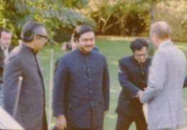 The photo contact sheet, identified as A1151 by the White House Photographic Office (WHPO), is housed at the Gerald R. Ford Presidential Library, a branch of the National Archives and Records Administration (NARA). This file is a 200 dpi photo contact sheet having images from roll of film A1151 of the August 9, 1974 - January 20, 1977 Gerald R. Ford White House Photographic Office Series A0001-A9999 and B0001-B2886 photographs. The date on the photo contact sheet is the date the roll of film was processed, not necessarily the date the photographs were taken. See table below for additional details.